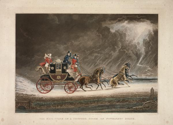 The mail coach in a thunderstorm on Newmarket Heath, Suffolk, 1827